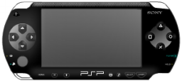 Black PlayStation Portable icon